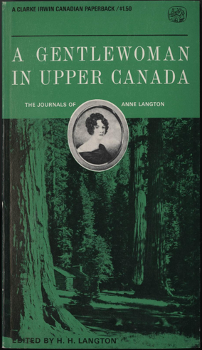 Cover page of "A gentlewoman in Upper Canada : the journals of Anne Langton" Clarke, Irwin & Company, 1950